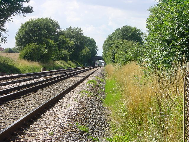 Looking west along the railway near Lenham. From the level footpath crossing on the Stour Valley & Len Valley Walks. The near bridge carries the Headcorn Road, the distant bridge, Hame Lane. Lenham Station lies between the two.